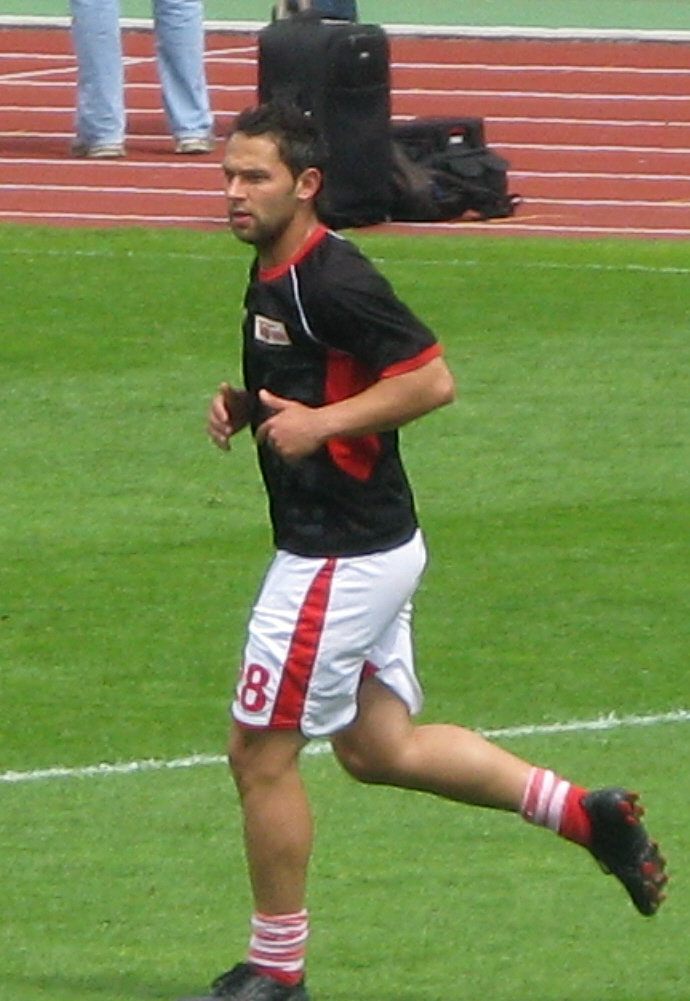 Shergo Biran is a german footballplayer. The striker plays for Dynamo Dresden.